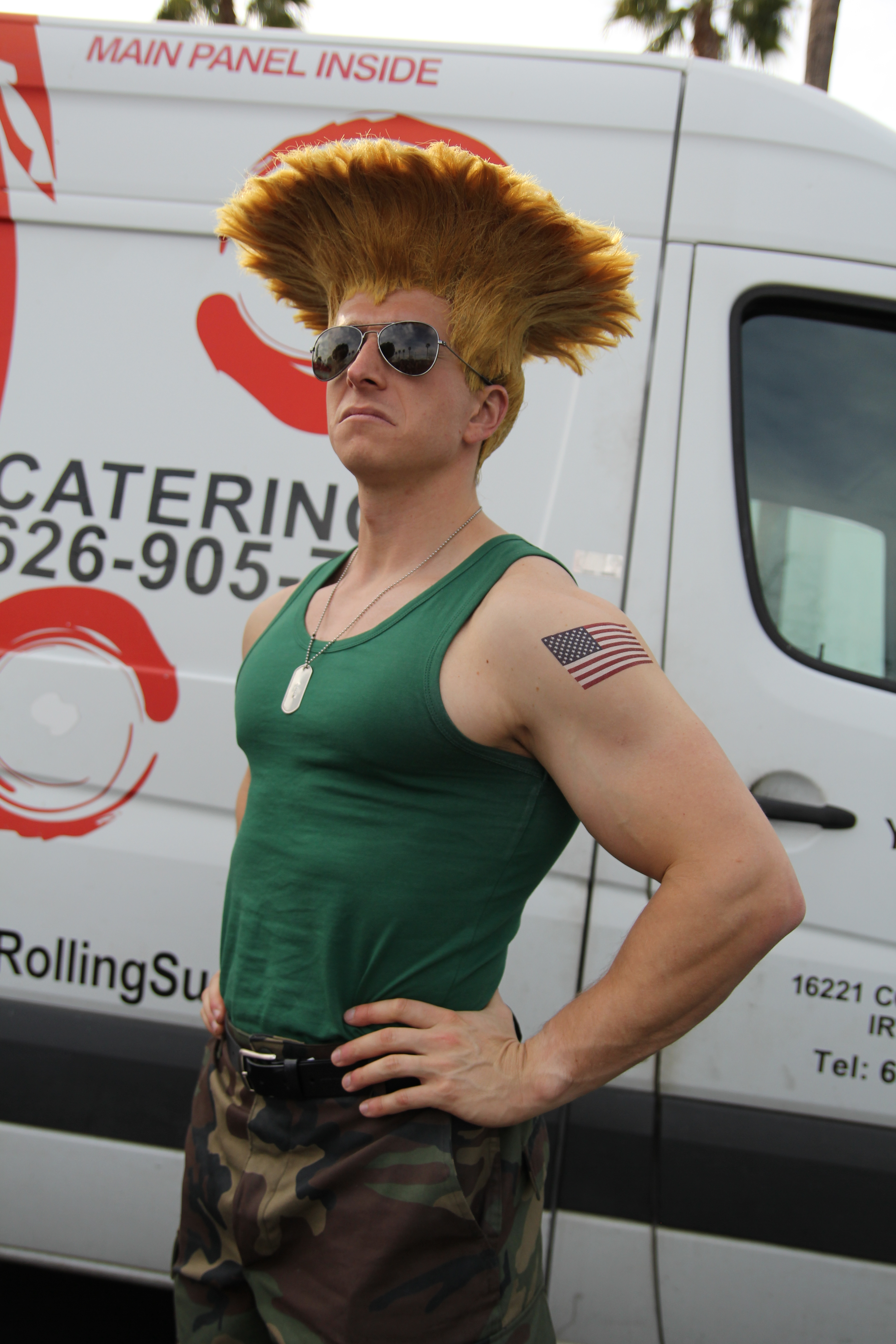 Guile cosplay, San Diego Comic-Con 2019.